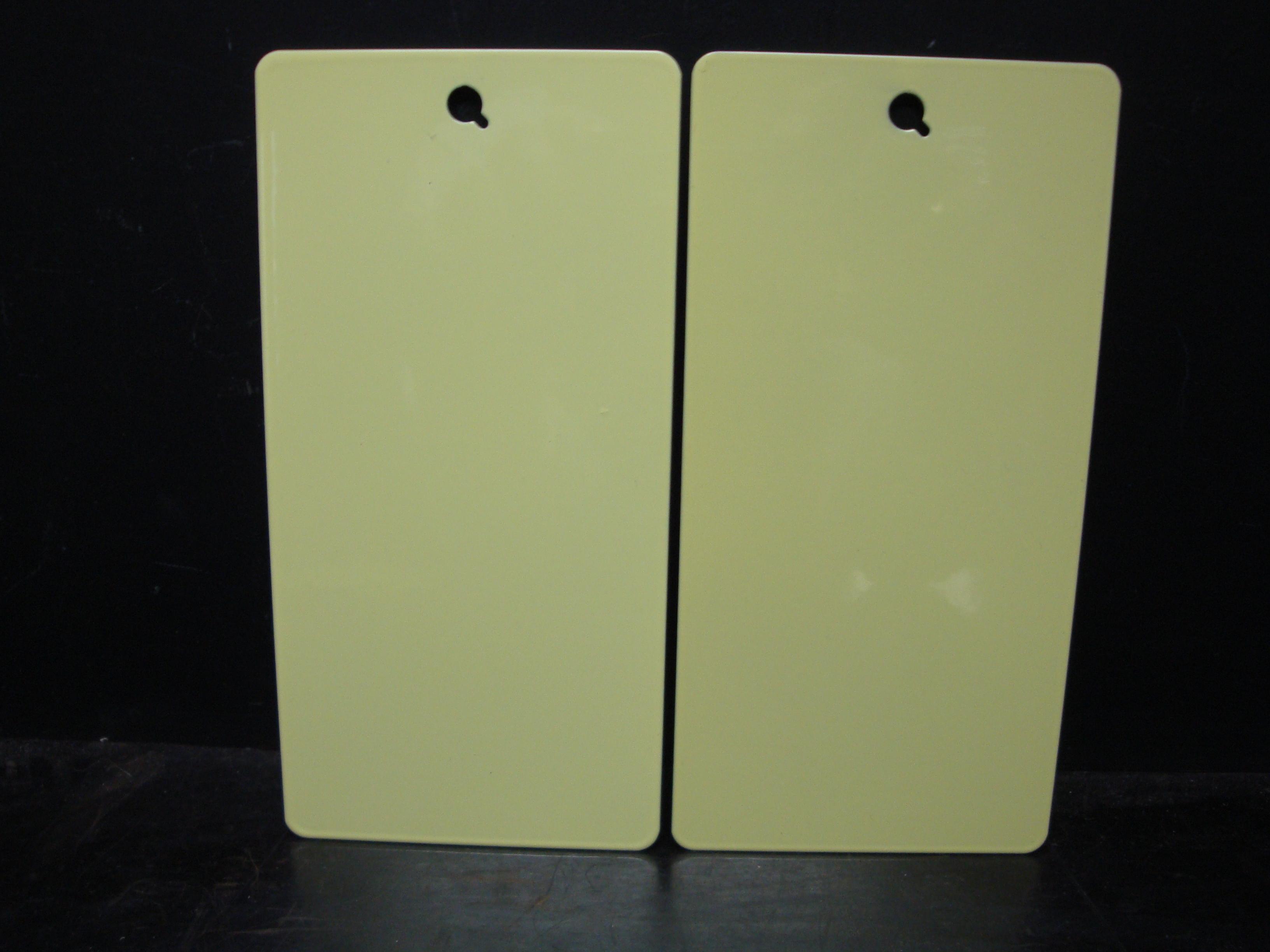 Comparison of C.I. Pigment Yellow 184 (left) and C.I. Pigment Yellow 53 (right), adjusted to 1/25 standard colour depth